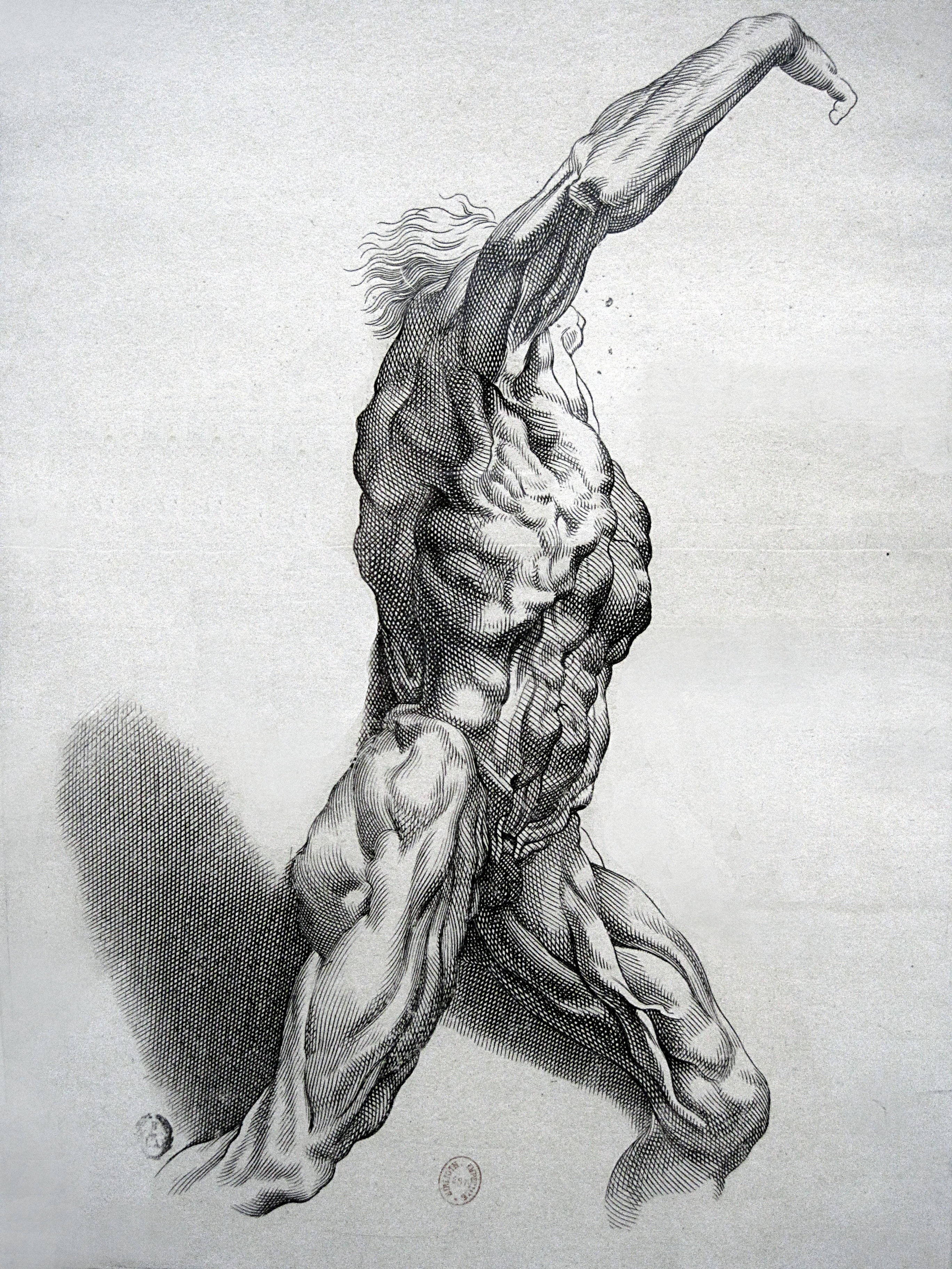 "Écorché" chisel (H. 33 cm. L 21.8 cm) realized after Peter Paul Rubens after 1640 by Paulus Pontius. - Engraving No. SNR - 3 PONTIUS of the Bibliothèque nationale de France in Paris . Photograph taken during the exhibition Rubens Europe - Louvre Museum .